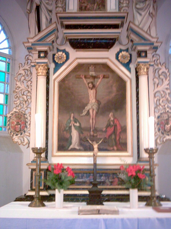 Church in Wilmersdorf